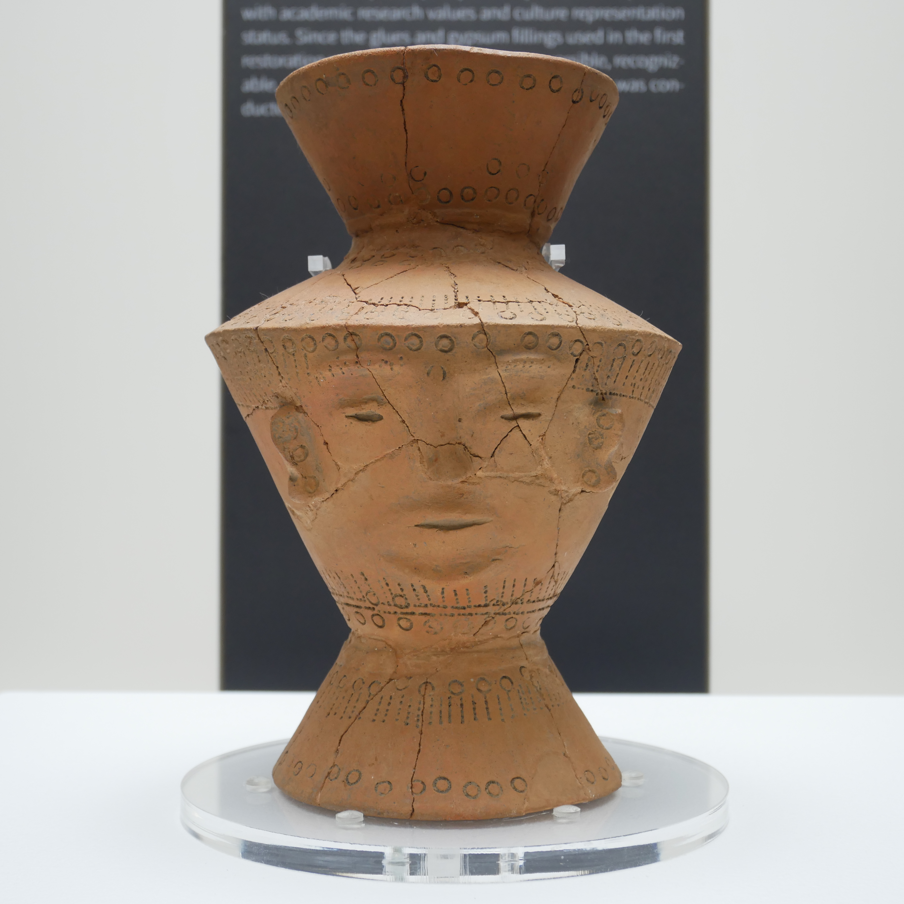 侈口縮頸單把折肩束腰圈足罐（人面陶罐），新北市八里區頂罟里